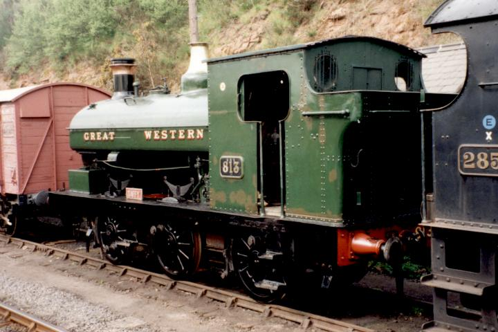 Port Talbot Railway 0-6-0ST built by Hudswell Clarke in 1900, PTR No. 26, later GWR 813, at Bewdley SVR.